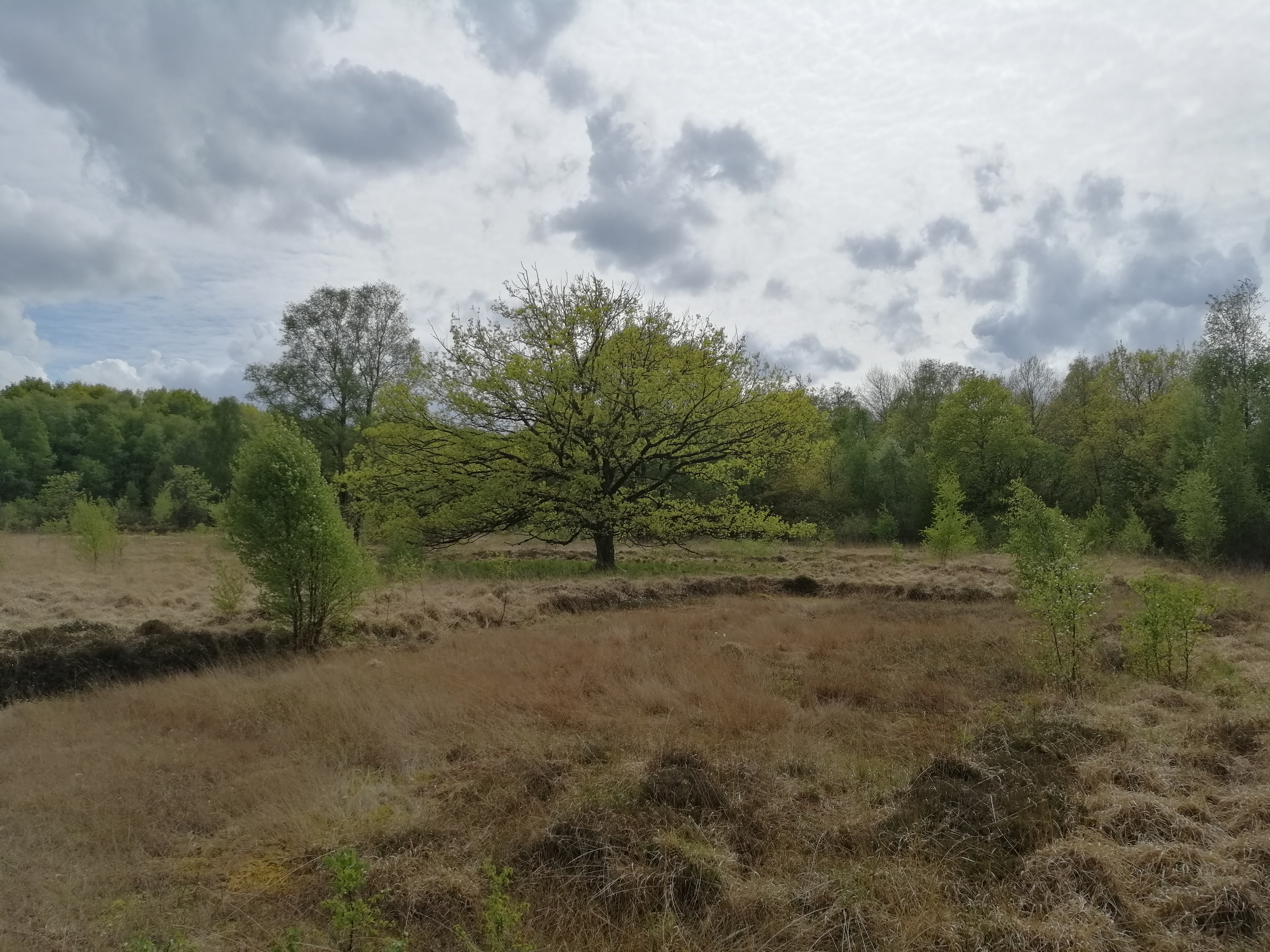 Nature reserve No. 39, Hechtmoor (engl. pike moor), south of town Satrup, district Schleswig-Flensburg, Schleswig-Holstein, Germany